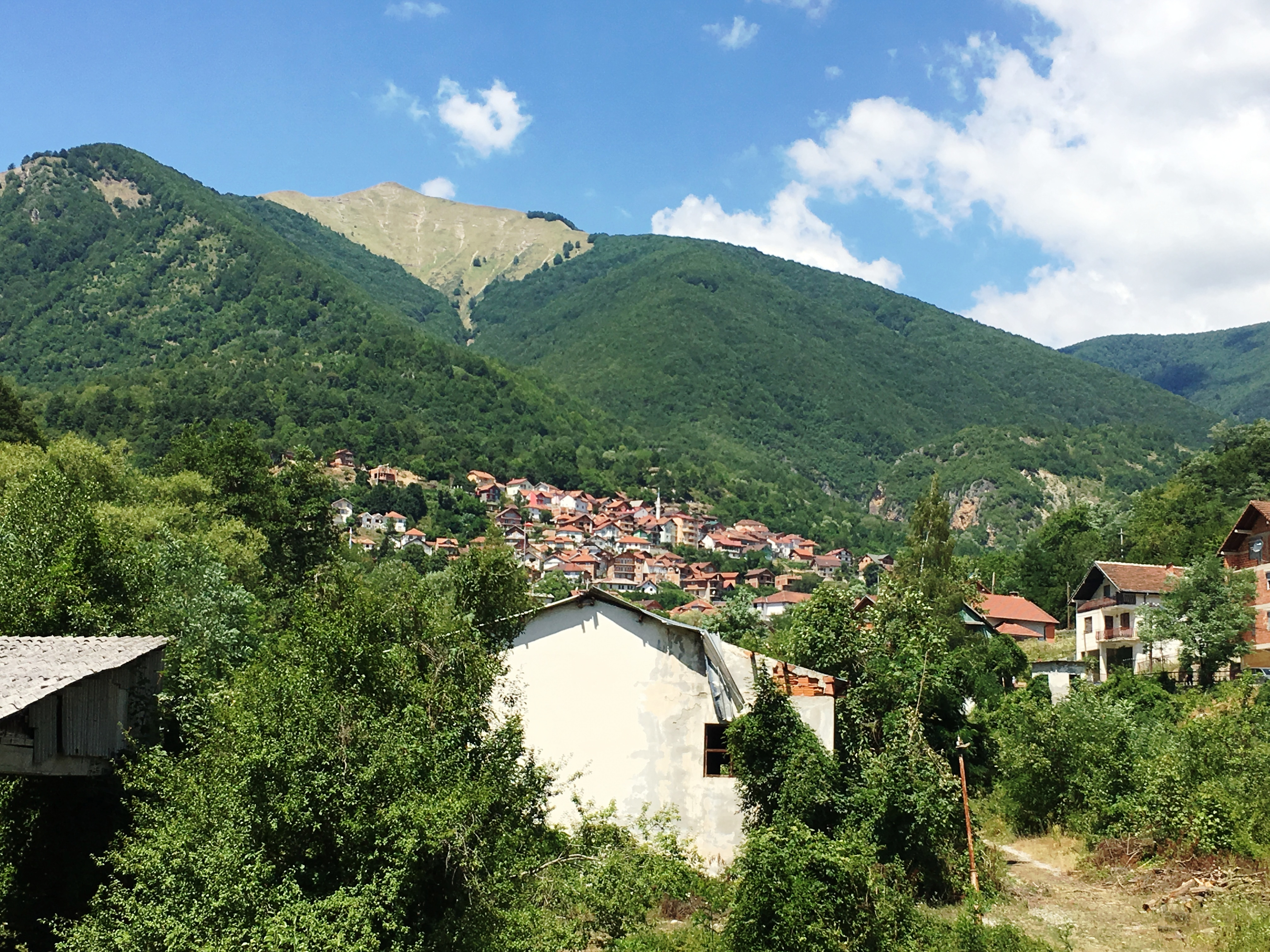 Panoramic view of Žirovnica with the peak Kurtovo Ḱule (2,082 m) in the background